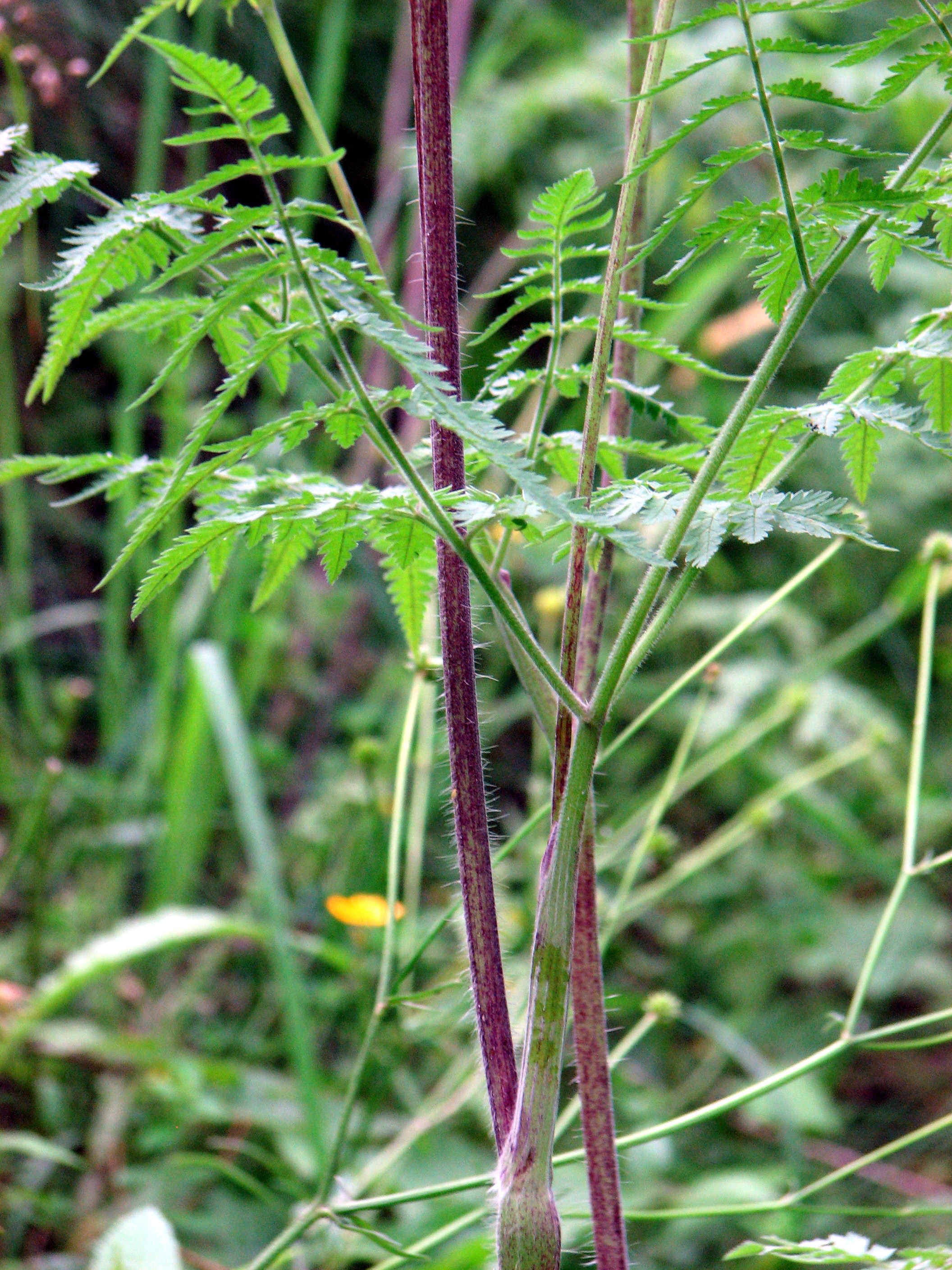 Chaerophyllum aureum - stem and leaves